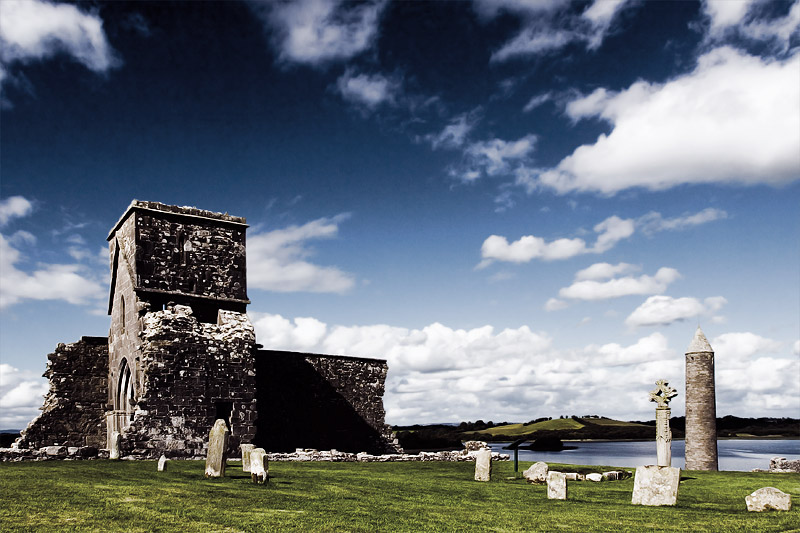 Devenish Island a 6th century Monastic site containts one of the finest examples of a 12th century round tower in Ireland. The Island itself is widly visited all year round with several boat trips a day busing tourists back and forth. Tech Info: Canon 20D Canon 17-40 F4L iso100 - f8 - 1/640th sec Mole2k 03:59, 26 May 2007 (UTC)